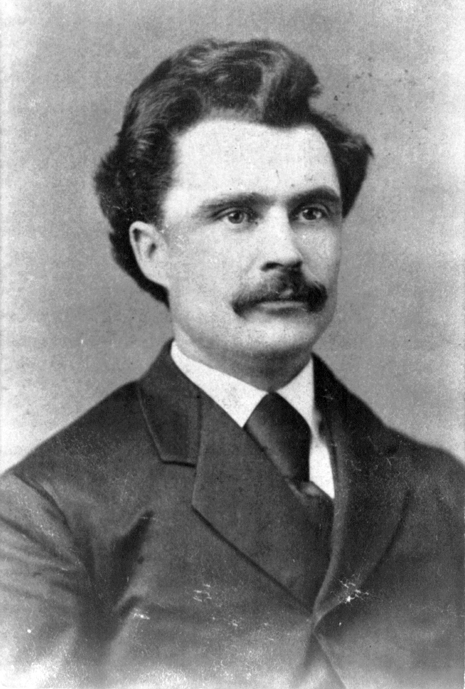 John Boyle O'Reilly, Irish-born poet, head-and-shoulders portrait, facing right. Inscribed on verso: To my friend, M.P. Curran, with the truest regard of John Boyle O'Reilly, 28th March 1871.